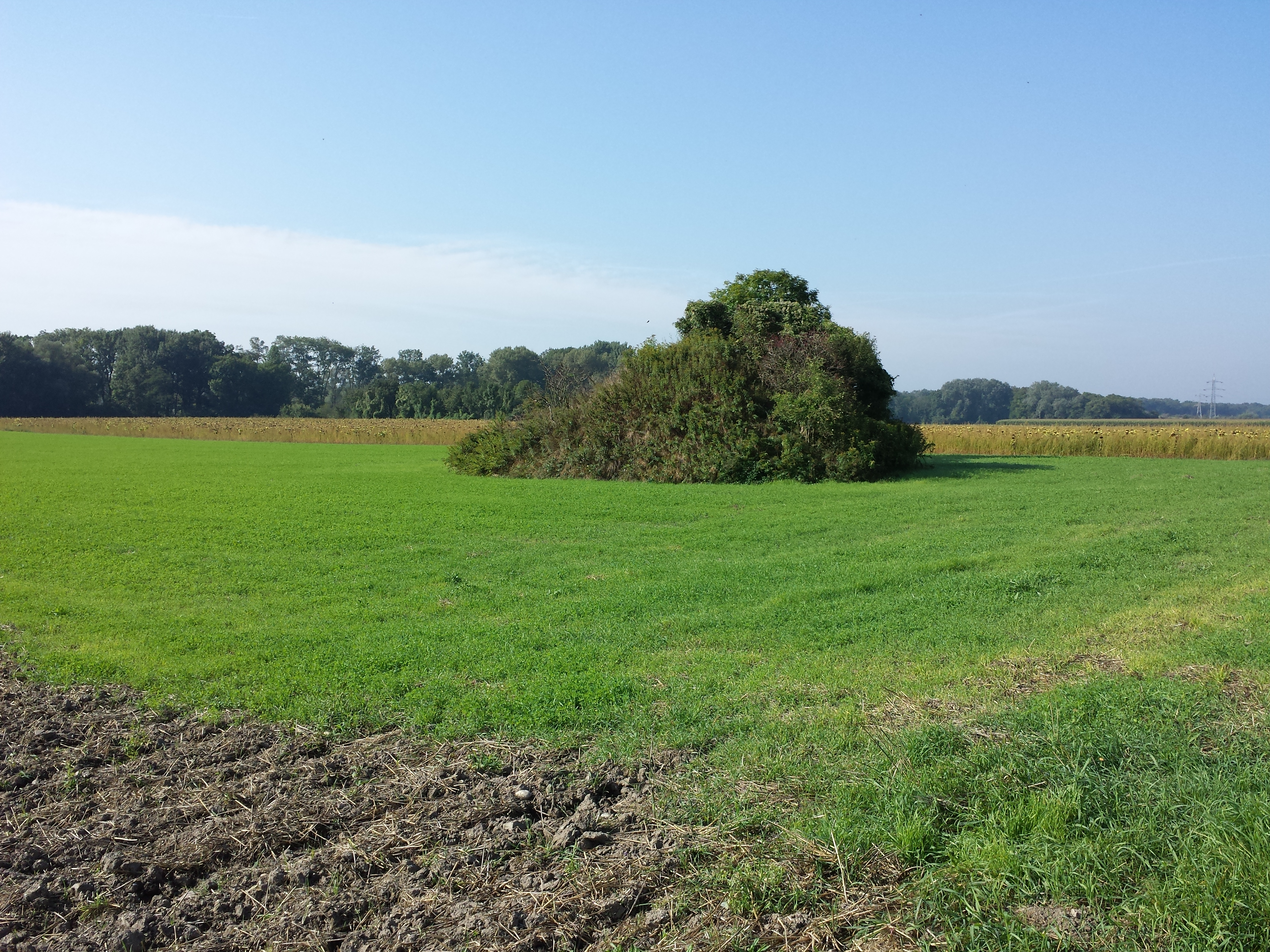 Barrow, called Löwenberg, next to Unterzögersdorf, Bezirk Korneuburg, Niederösterreich